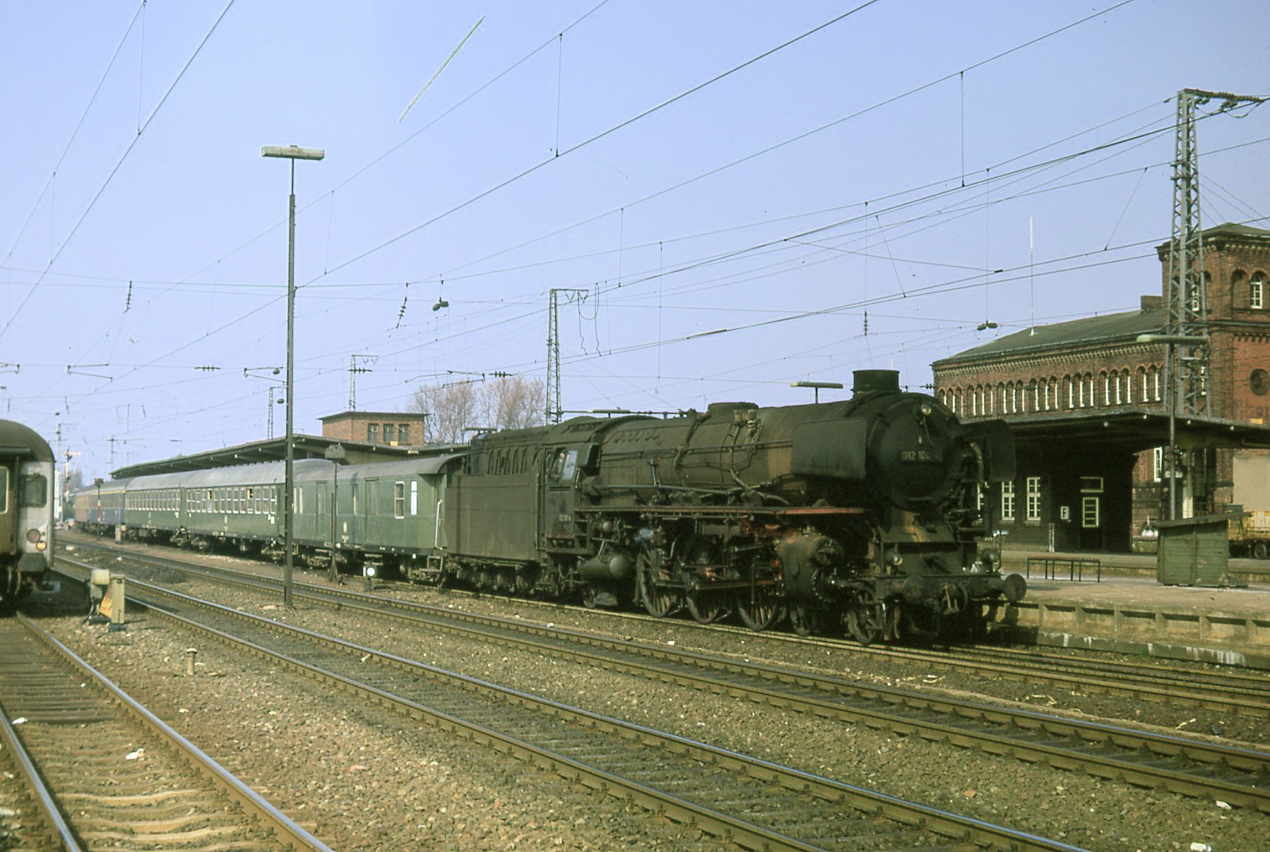 An 012 class pacific on a semi-fast from Emden in Rheine